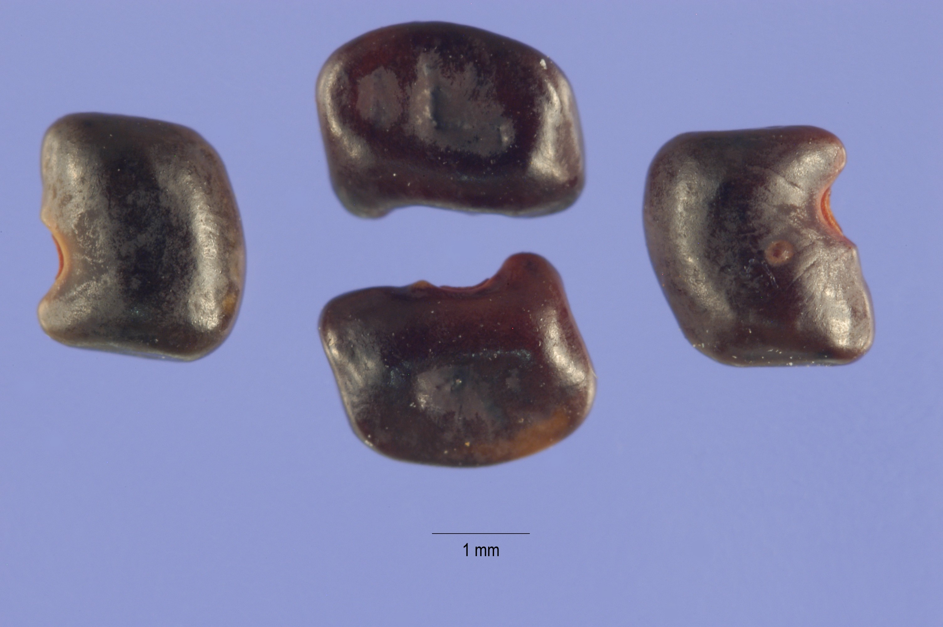 Zigzag Jointvetch. Seeds from Mexico.